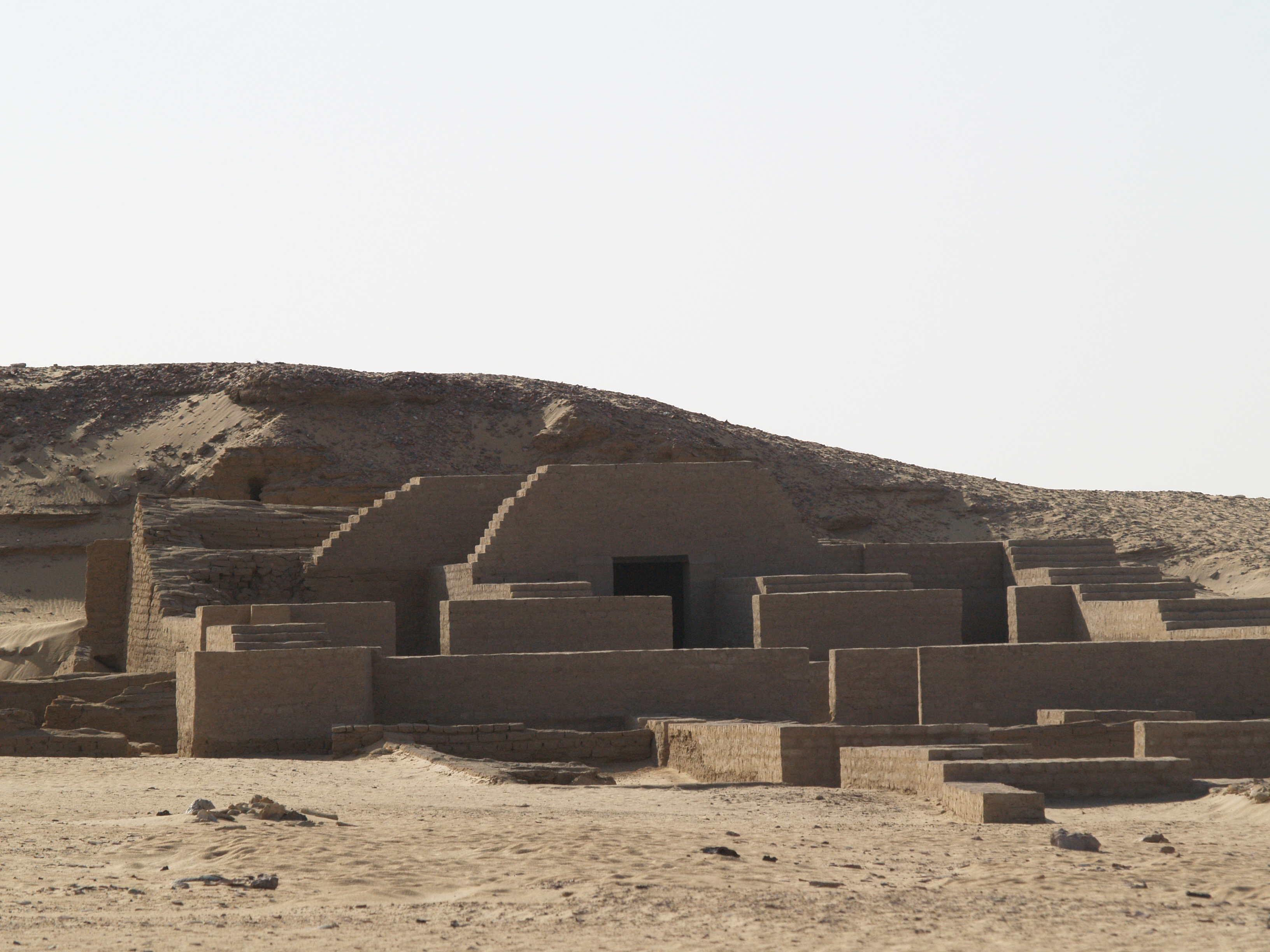 AWIB-ISAW: Ain Manawir (III) The temple built by the Persians at Ain Manawir. by NYU Excavations at Amheida Staff (2006) copyright: 2006 NYU Excavations at Amheida (used with permission) photographed place: (Ain Manawir) [1] authority: Image published on the authority of the Amheida Project Director, Roger Bagnall Published by the Institute for the Study of the Ancient World as part of the Ancient World Image Bank (AWIB). Further information: [2].